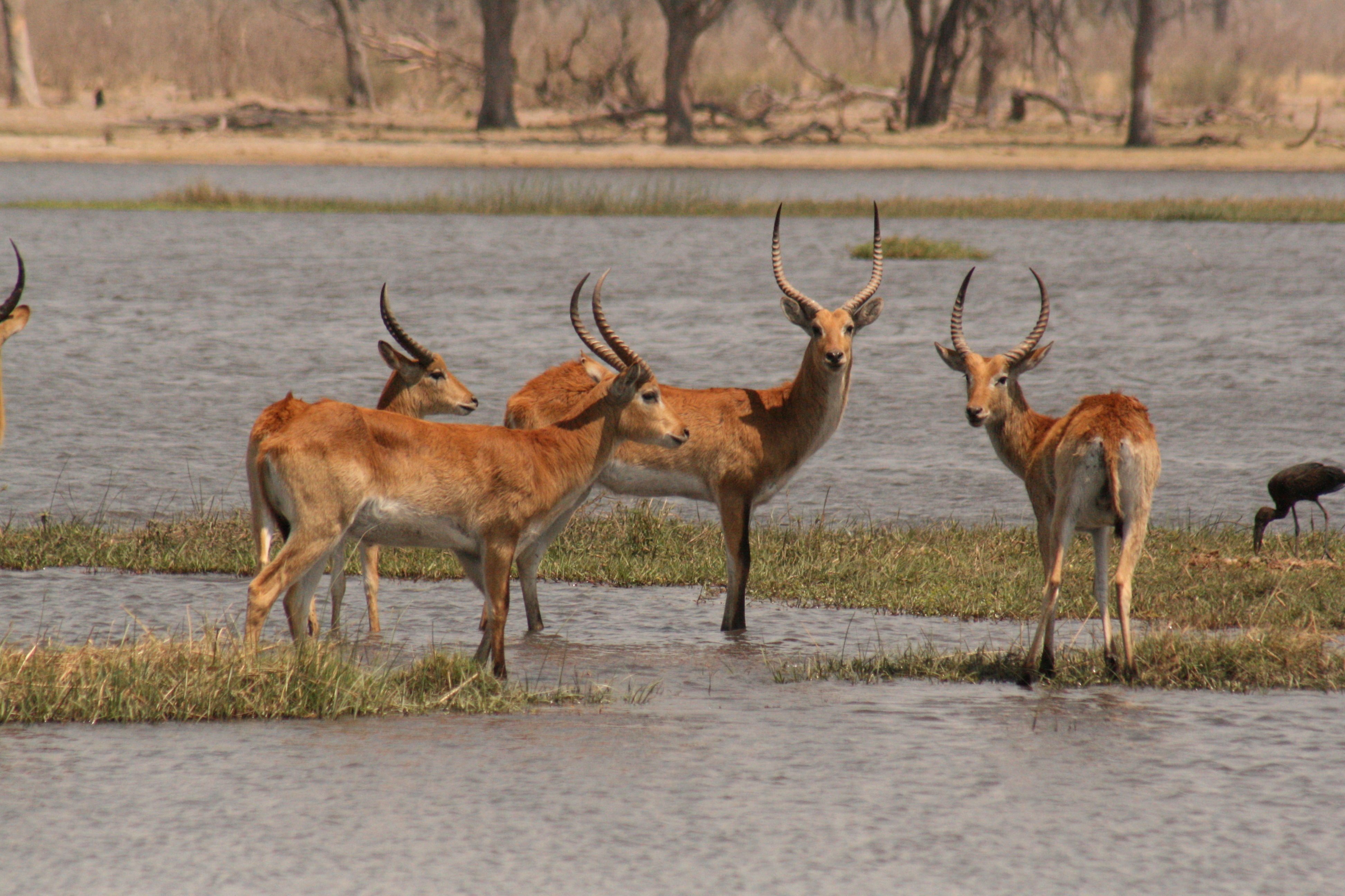 Red Lechwe in a lagoon in the Okavango.